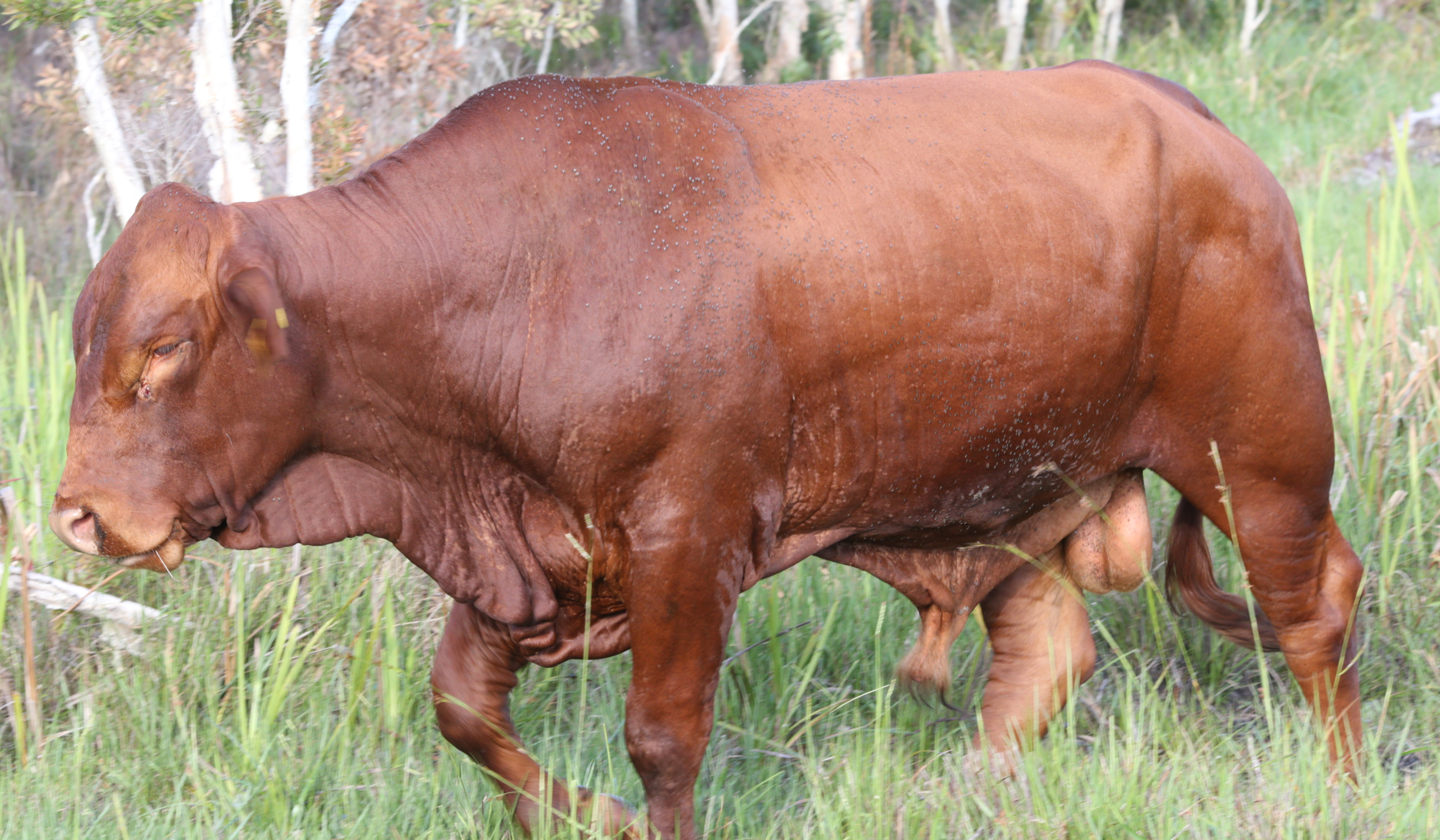 The drought master bulls are fairly tame given their size, good natured. This one is coming in for a spray